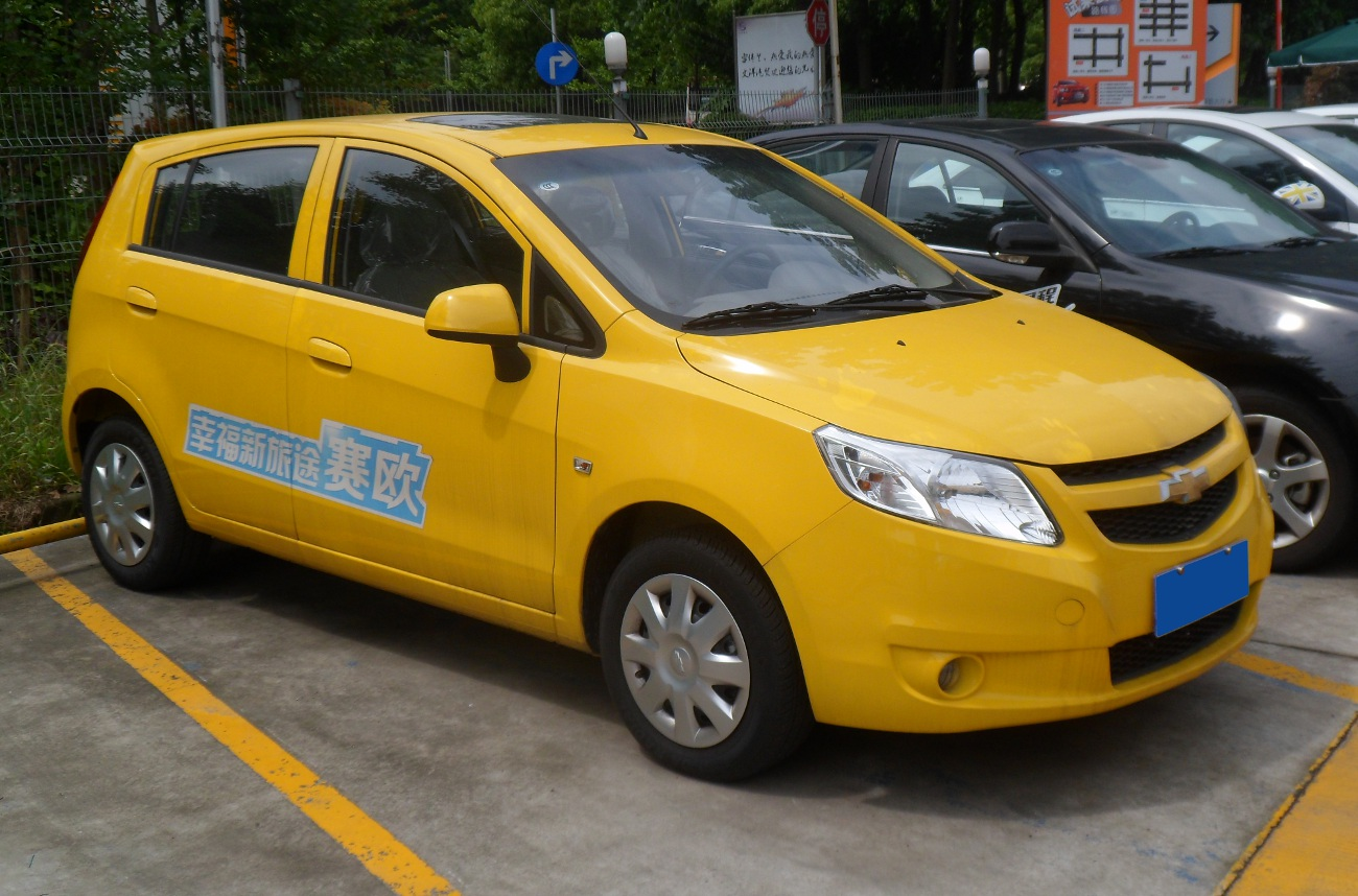 Chevrolet Sail II hatch photographed in Shanghai, China.